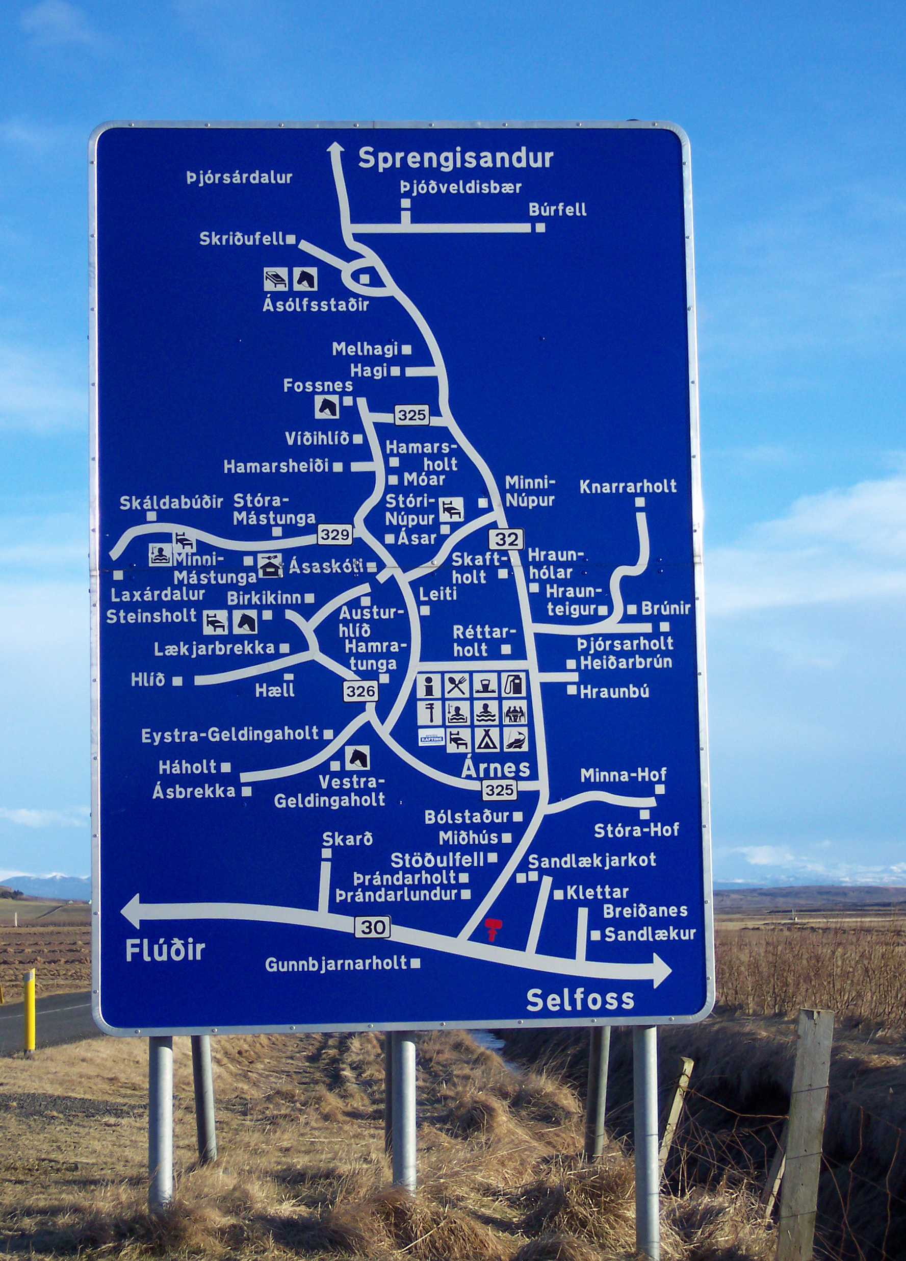 Author: Jóna Þórunn Ragnarsdóttir, taken february 17. 2006. Road sign in Gnúpverjahreppur, showing the farms and houses in the municipality.